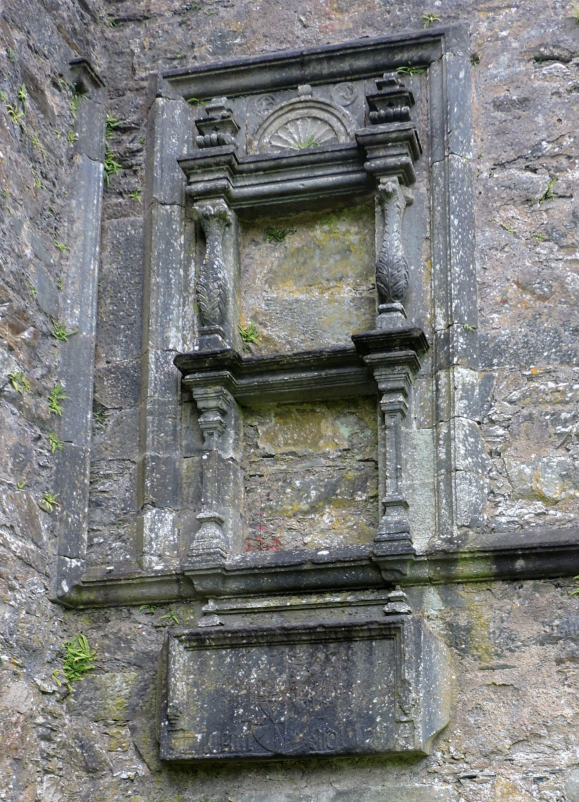 Carnasserie Castle interior detail